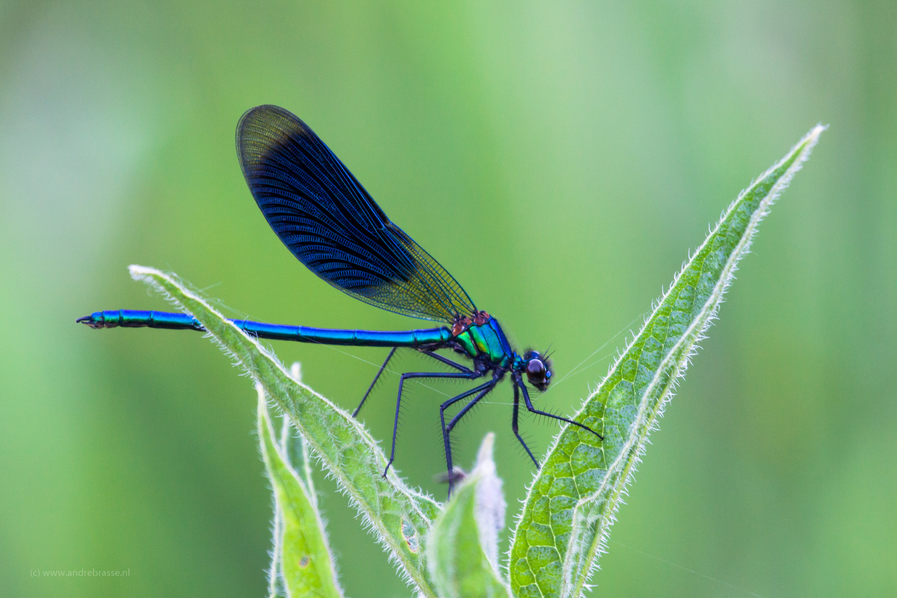 This is a photo or sound file made in Drentsche Aa National Park in the Netherlands, with the main subject of the file in the category: animals